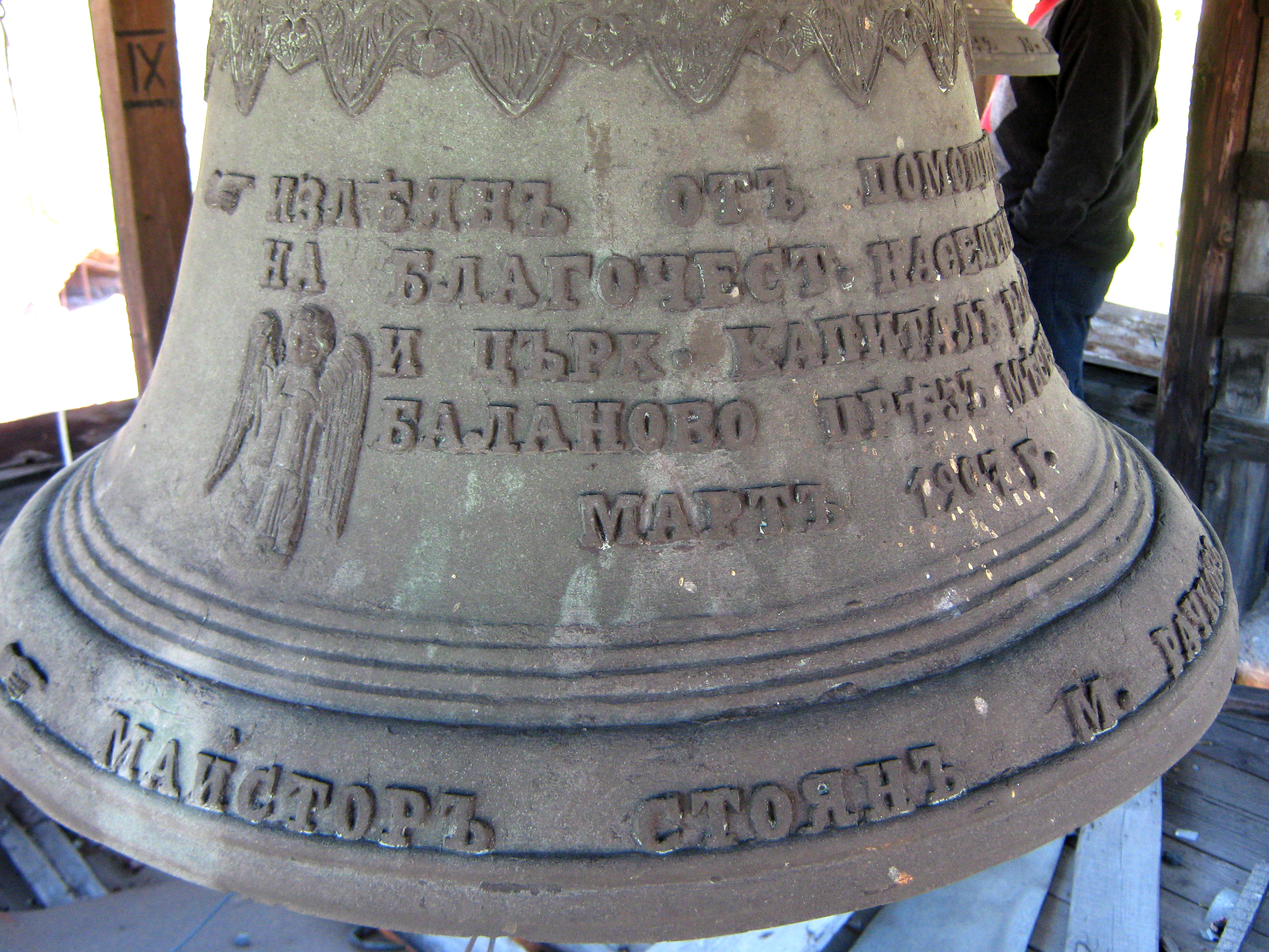 This photo is provided by the Historical Museum in Dupnitsa and is included in the album "Dupnitsa through the centuries" („Дупница през вековете“). Dupnitsa Municipality, Historical Museum - Dupnitsa. ISBN 978-954-8187-89-3.